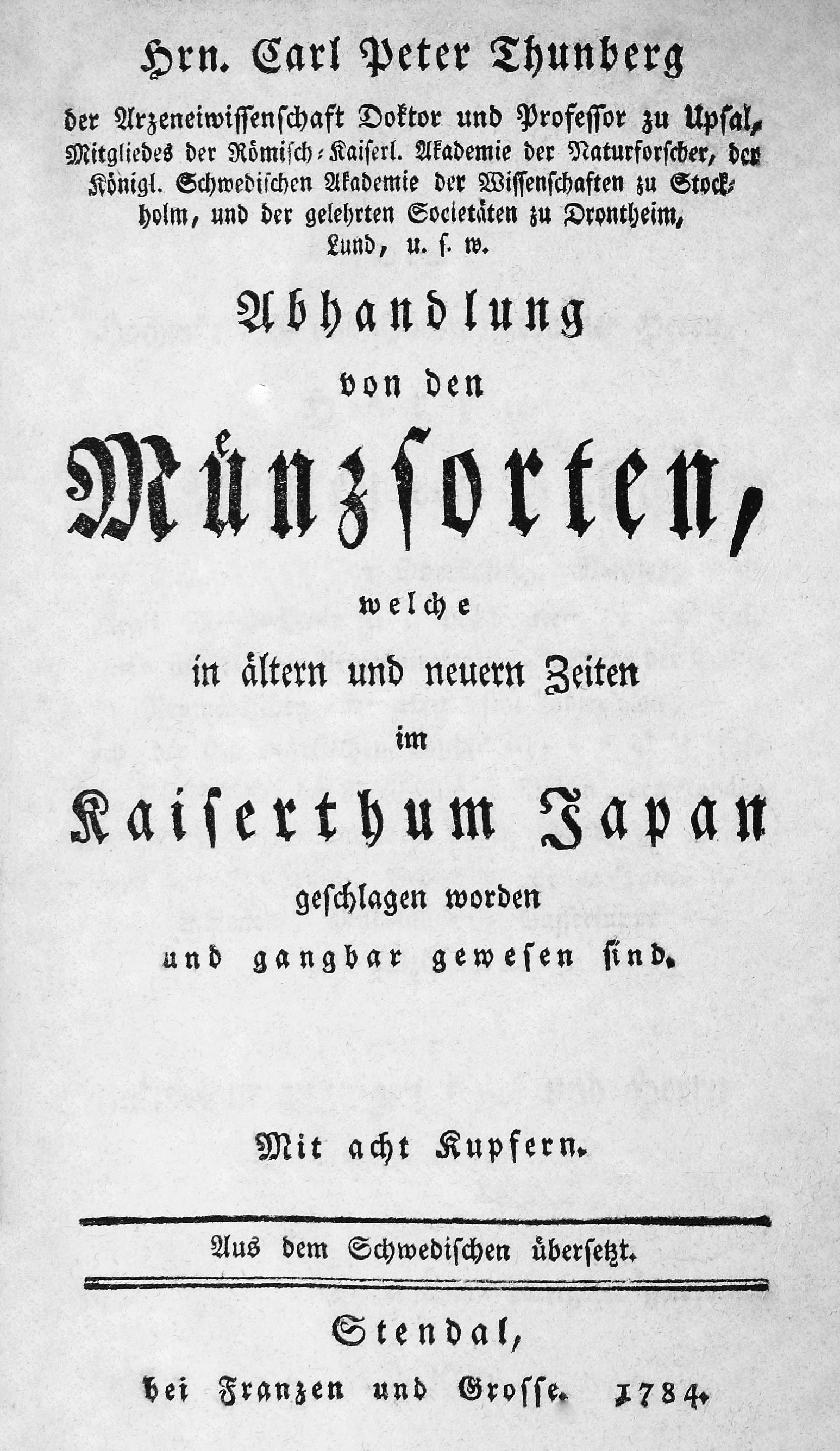 Hrn. Carl Peter Thunberg der Arzeneiwissenschaft Doktor und Professor zu Upsala ... Abhandlung von den Münzsorten, welche in ältern und neuern Zeiten im Kaiserthum Japan geschlagen worden und gangbar gewesen sind. Stendal 1784 (Translation by Johan Arnold Stützer)